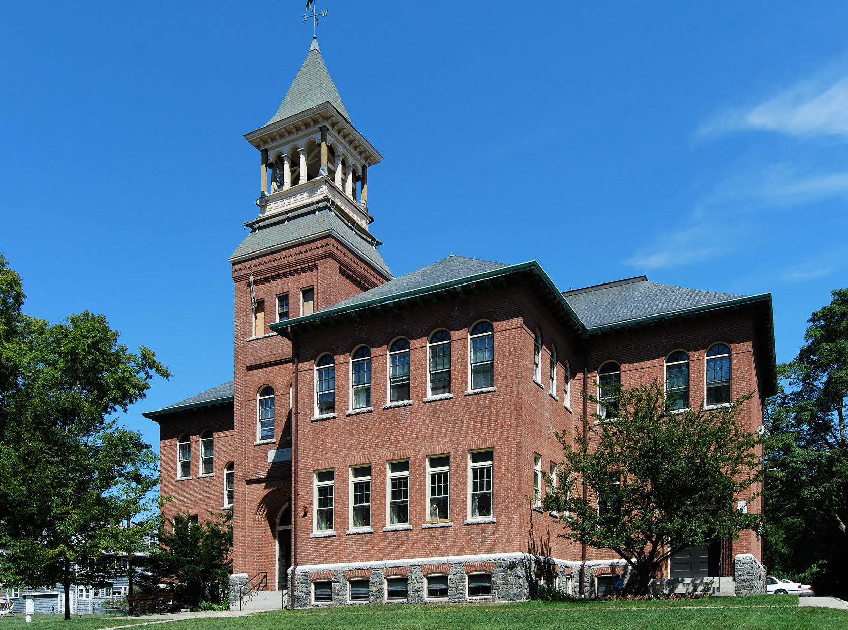 former Washington School, Vernon Street, Taunton, Mass.